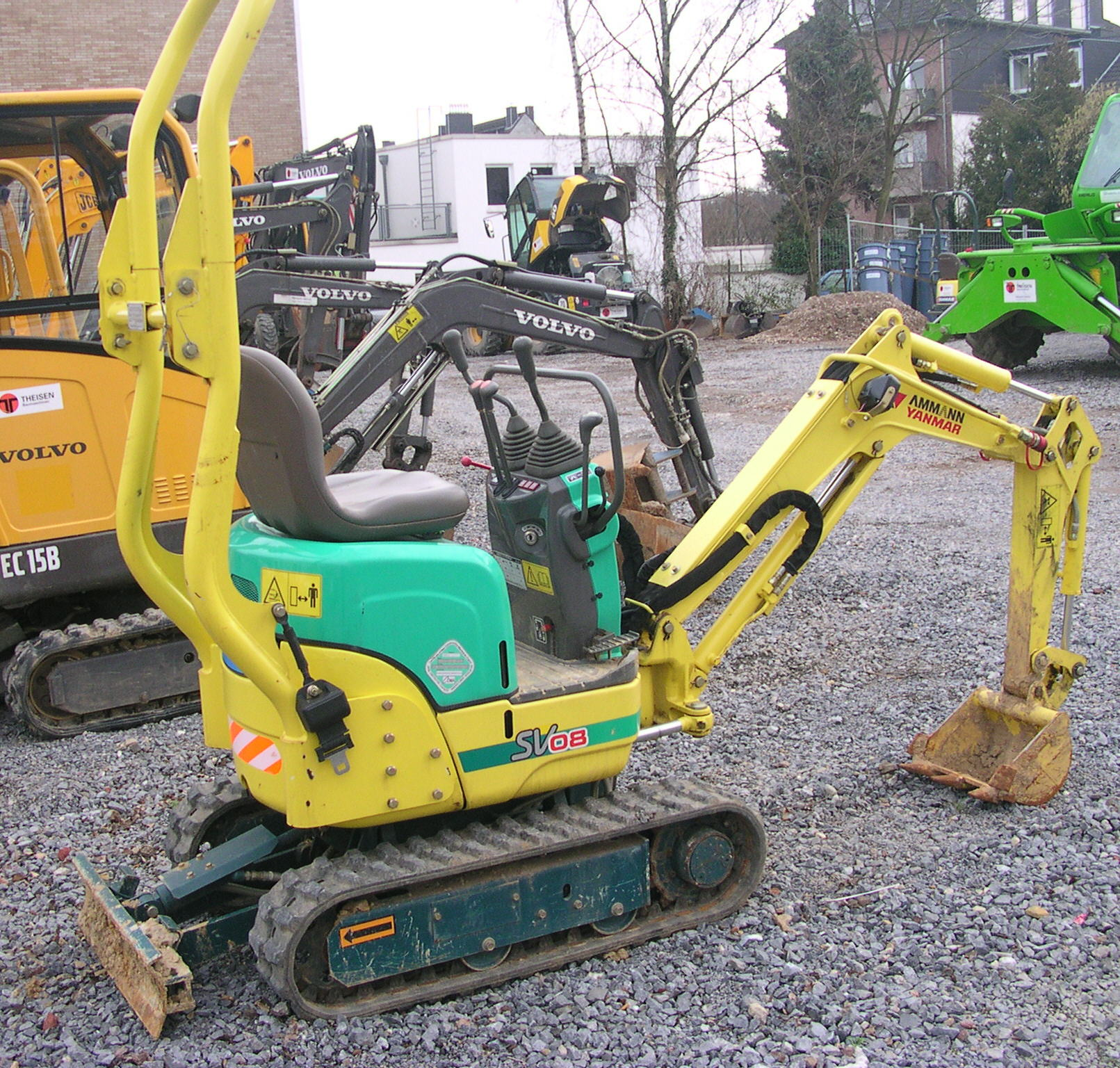 Ammann Yanmar ultra mini excavator SV08-1, Weight 1065 Kg, Digging depth 1500 mm, Dumping height 1950 mm, Rear swing radius. 725 mm, Engine Yanmar Diesel 2TE67L-BV, 7,7 kw (10,5 HP) 2400 rpm, Transport dimensions (L/W/H) 2600 x 680/840 x 1650/1550 mm